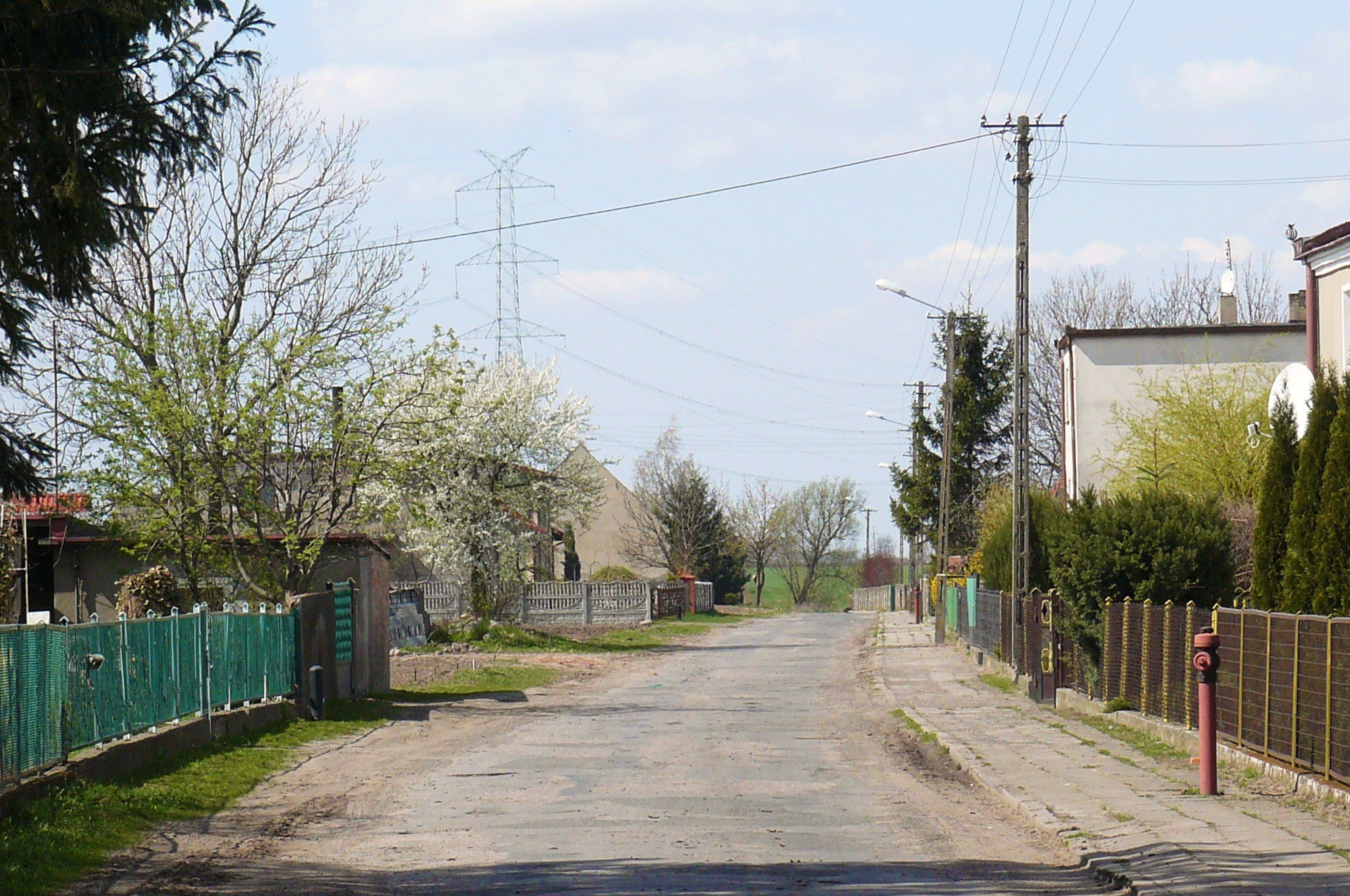 Januszewo.